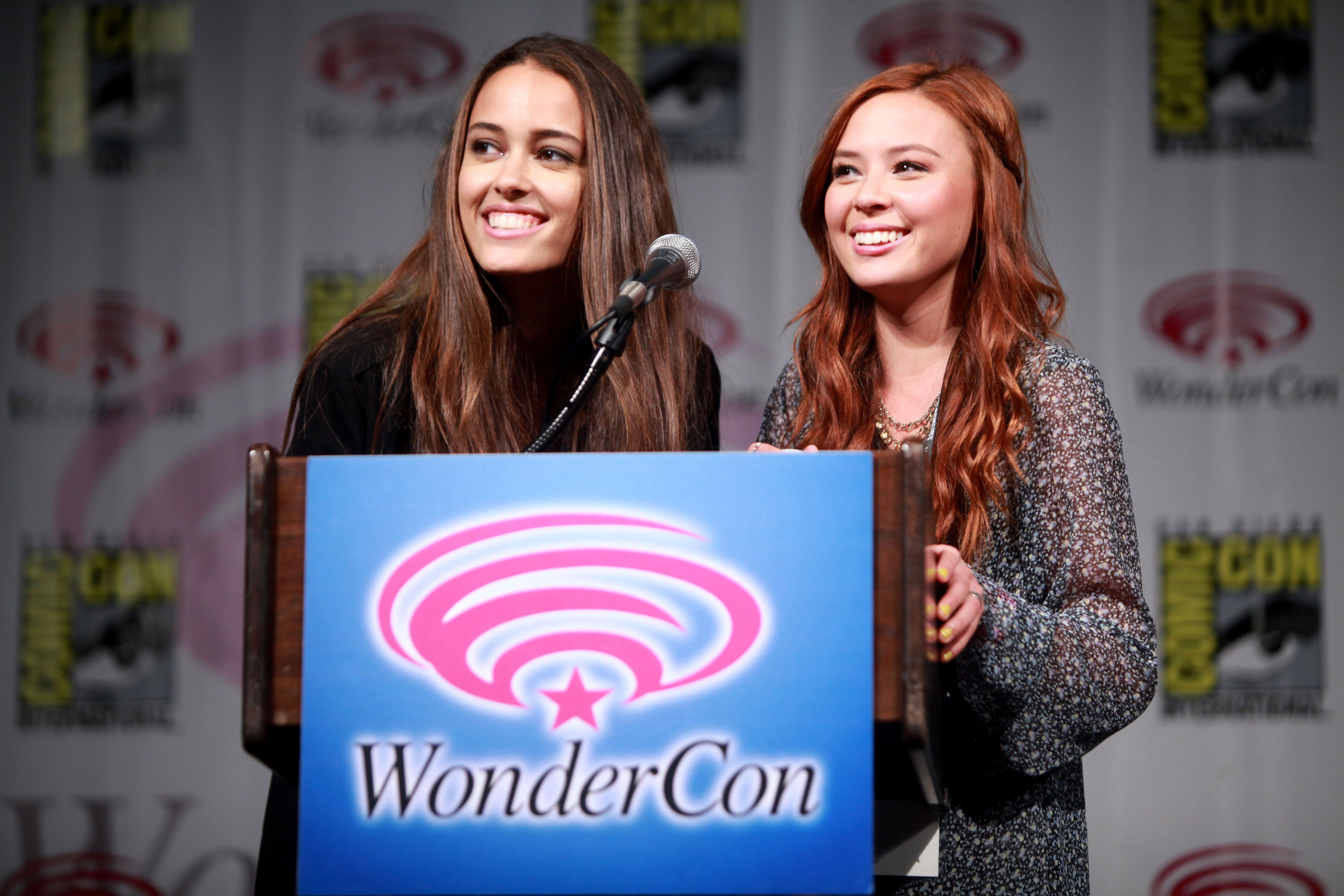 Malese Jow speaking at the 2014 WonderCon, for "Star-Crossed", at the Anaheim Convention Center in Anaheim, California.